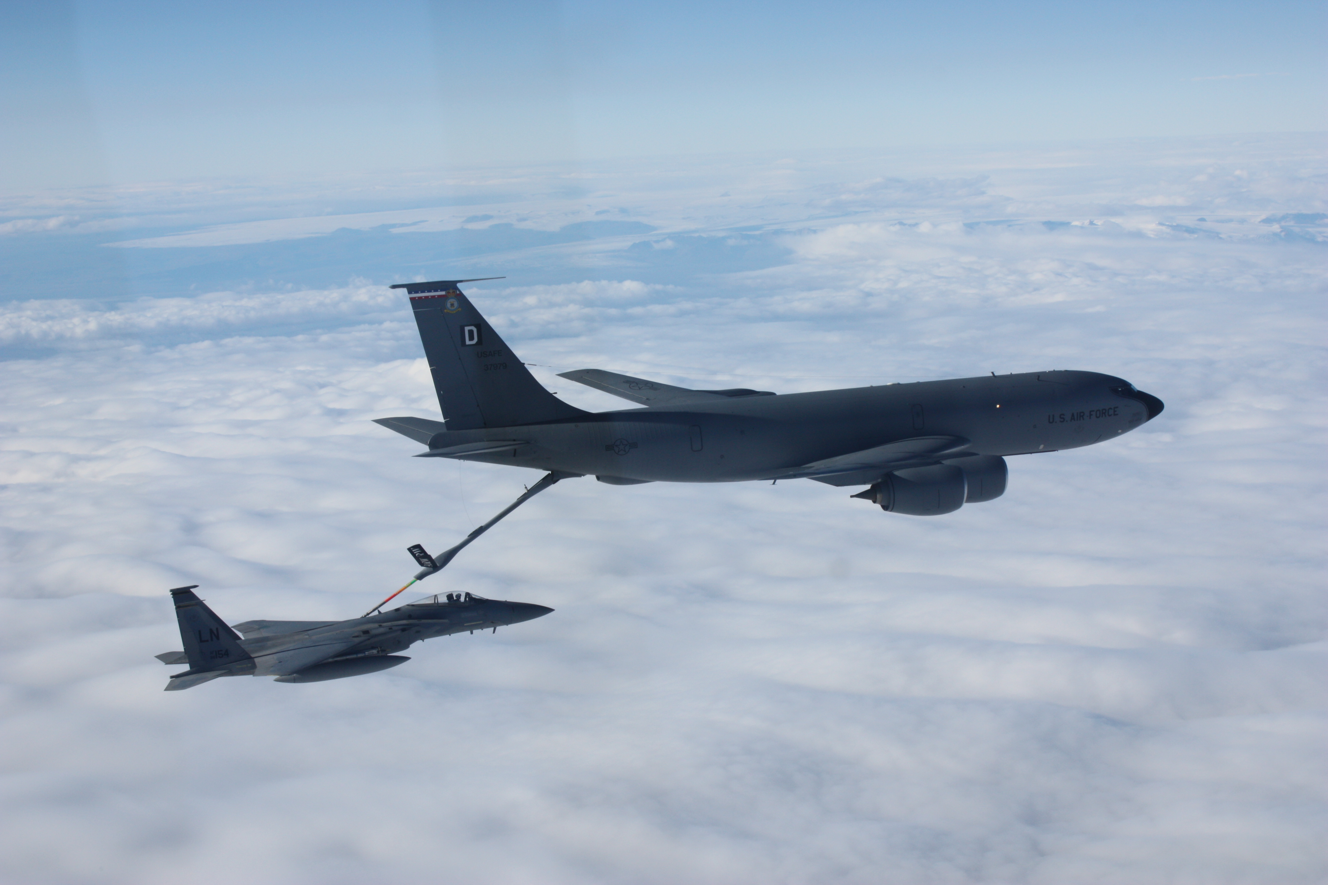 KEFLAVIK, Iceland – A KC-135 Stratotanker deployed from the 100th Air Refueling Wing at RAF Mildenhall, England, refuels an F-15C Eagle that is deployed from the 48th Fighter Wing at RAF Lakenheath, England, during a flight in support of NATO’s Icelandic Air Policing mission Sept. 15, 2010. The 493rd Expeditionary Fighter Squadron has been maintaining control of the IAP mission Sept. 6, 2010, when the squadron achieved full operational capable status.